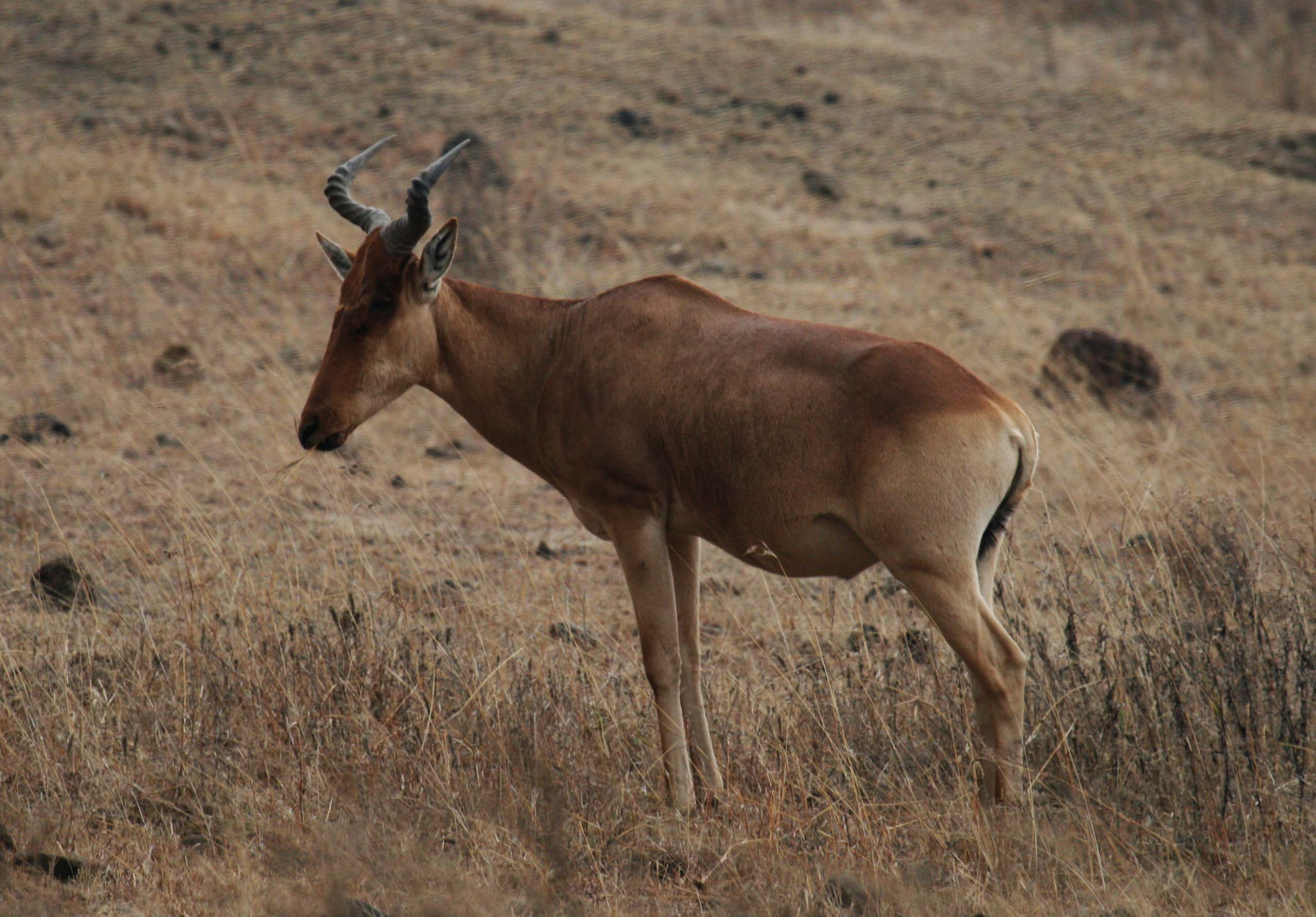 Coke's hartebeest, Ngorongoro Crater, Tanzania